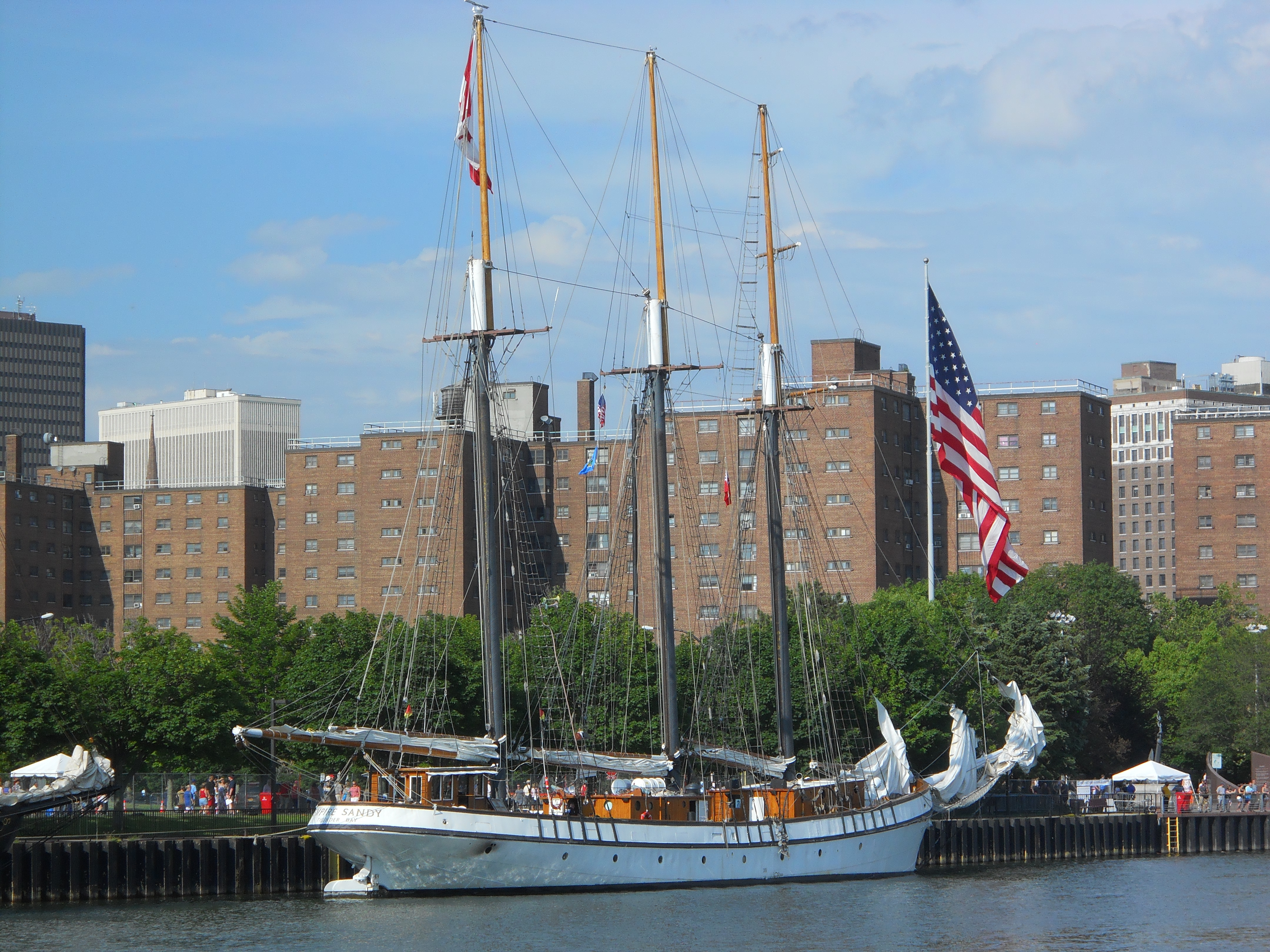 Empire Sandy in Buffalo, New York on July 04, 2019